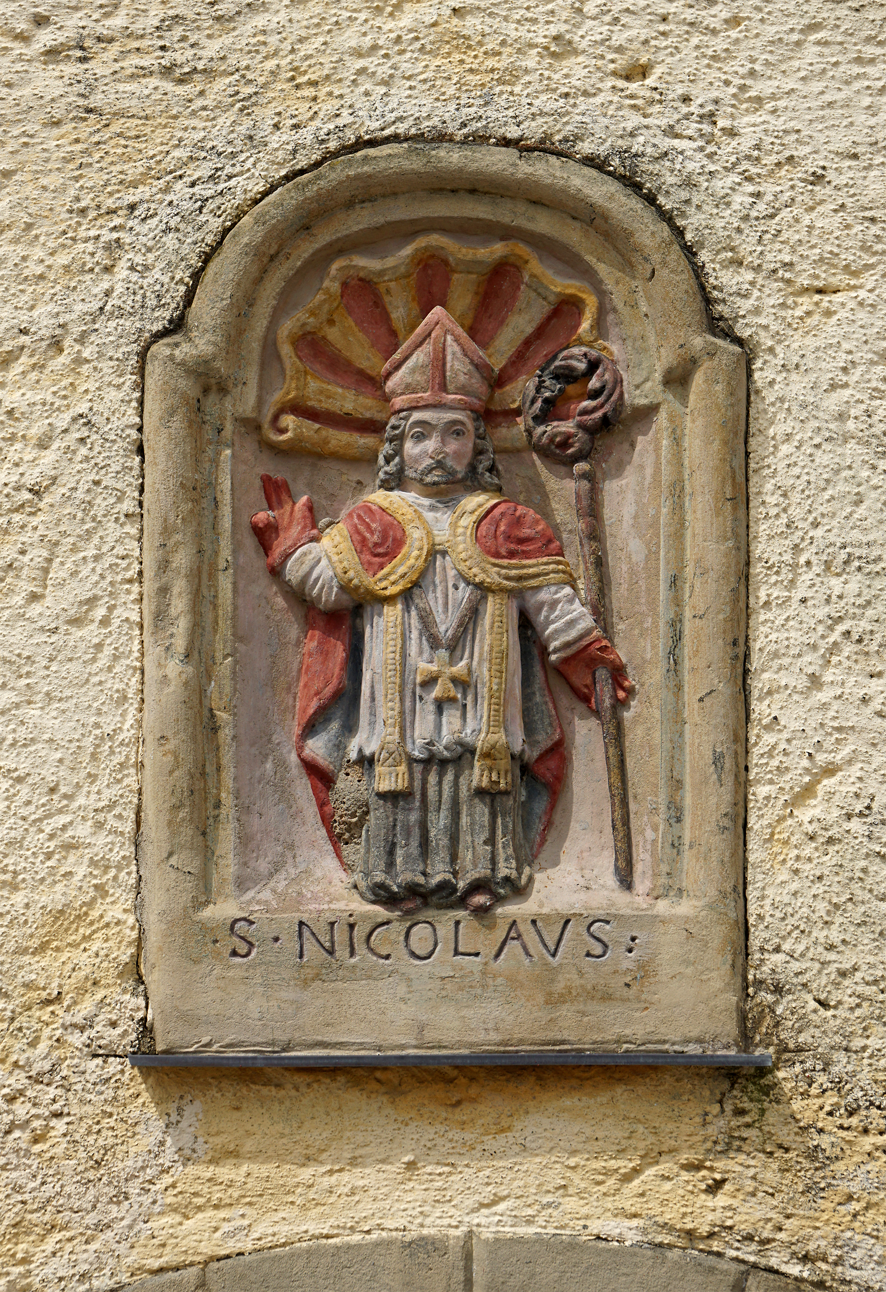 St. Nicholas over the entrance of the chapel of the Marienthalerhof